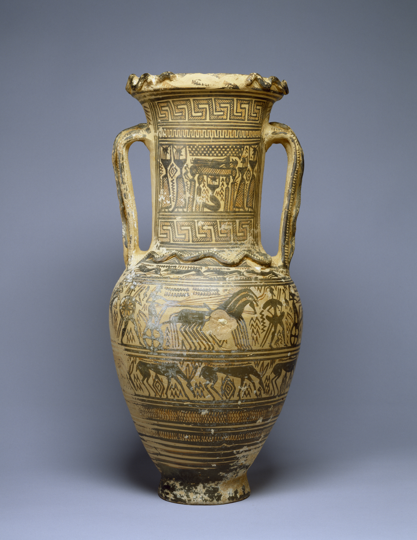 An "amphora" is a two-handled vessel used to store wine, oil, honey, or grain. Vases such as this one, however, were made to be buried in tombs and depict moments in the funerary ritual. On the neck, the deceased is laid out on the funeral bier, with the checkered shroud raised to reveal the body. The couch is surrounded by women who tear at their hair in grief. Around the body of the vase, a procession of chariots and warriors moves to the right. A narrow band of running dogs appears above, and a band of grazing deer below. Clay snakes were modeled separately and applied to the mouth, handles, and shoulder of the vase, emphasizing their funerary role as guardians of tombs.